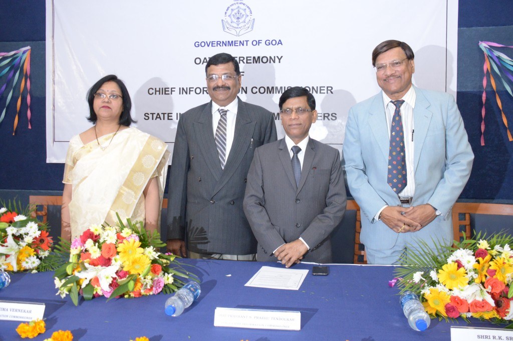 (L to R): State Information Commissioner Pratima Vernekar, State Chief Information Commissioner Prashant Sadashiv Prabhu Tendolkar, Chief Secretary of Goa R.K. Srivastava and State Information Commissioner Juino De Souza. This photograph was taken at the oath ceremony of the State Information Commissioner and the State Chief Information Commissioner, held on 01 January, 2016.